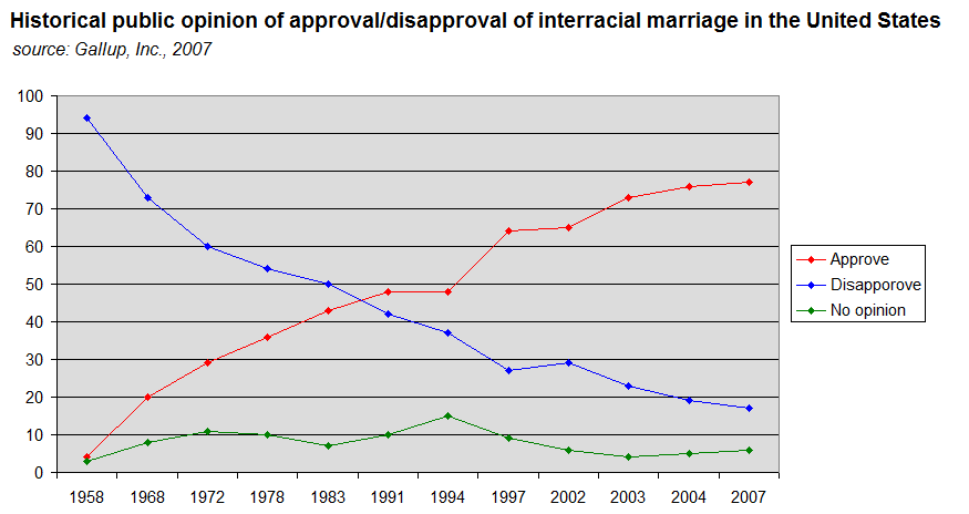 Public opinion of interracial marriage in the United States according to Gallup, Inc. article archived